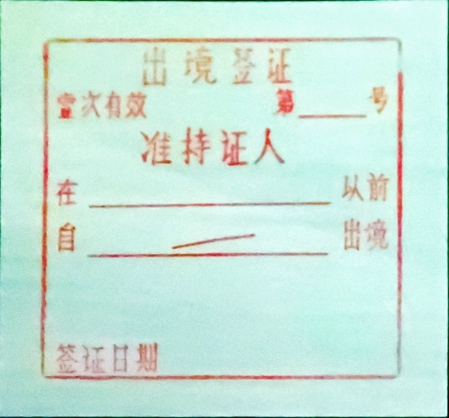 Exit Visa used in People’s Republic of China